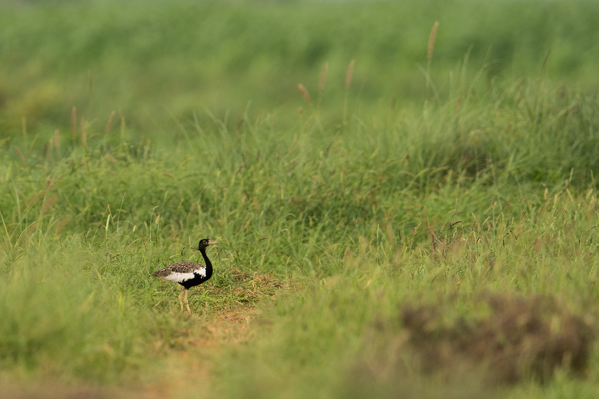 A male Lesser Florican Sypheotides indicus from Rajasthan, India.